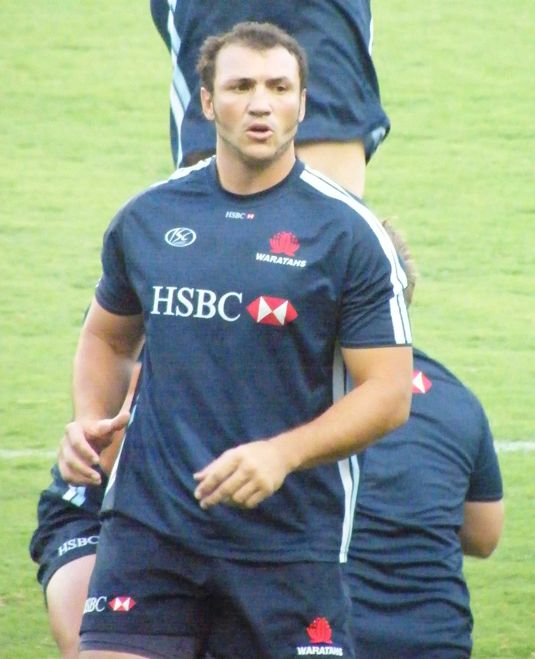 NSW Loose forward Scott Fava.